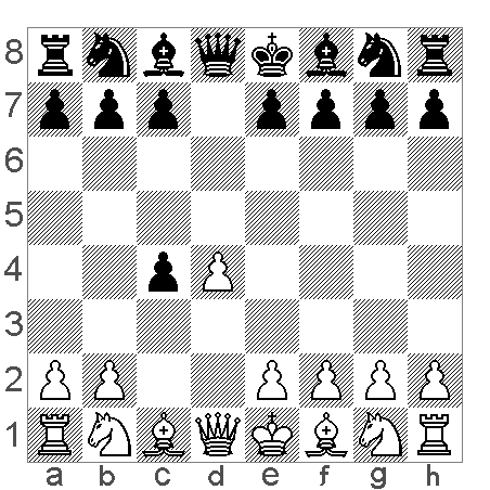 chess diagram Accepted Queen's gambit Source: CBlight + my processing